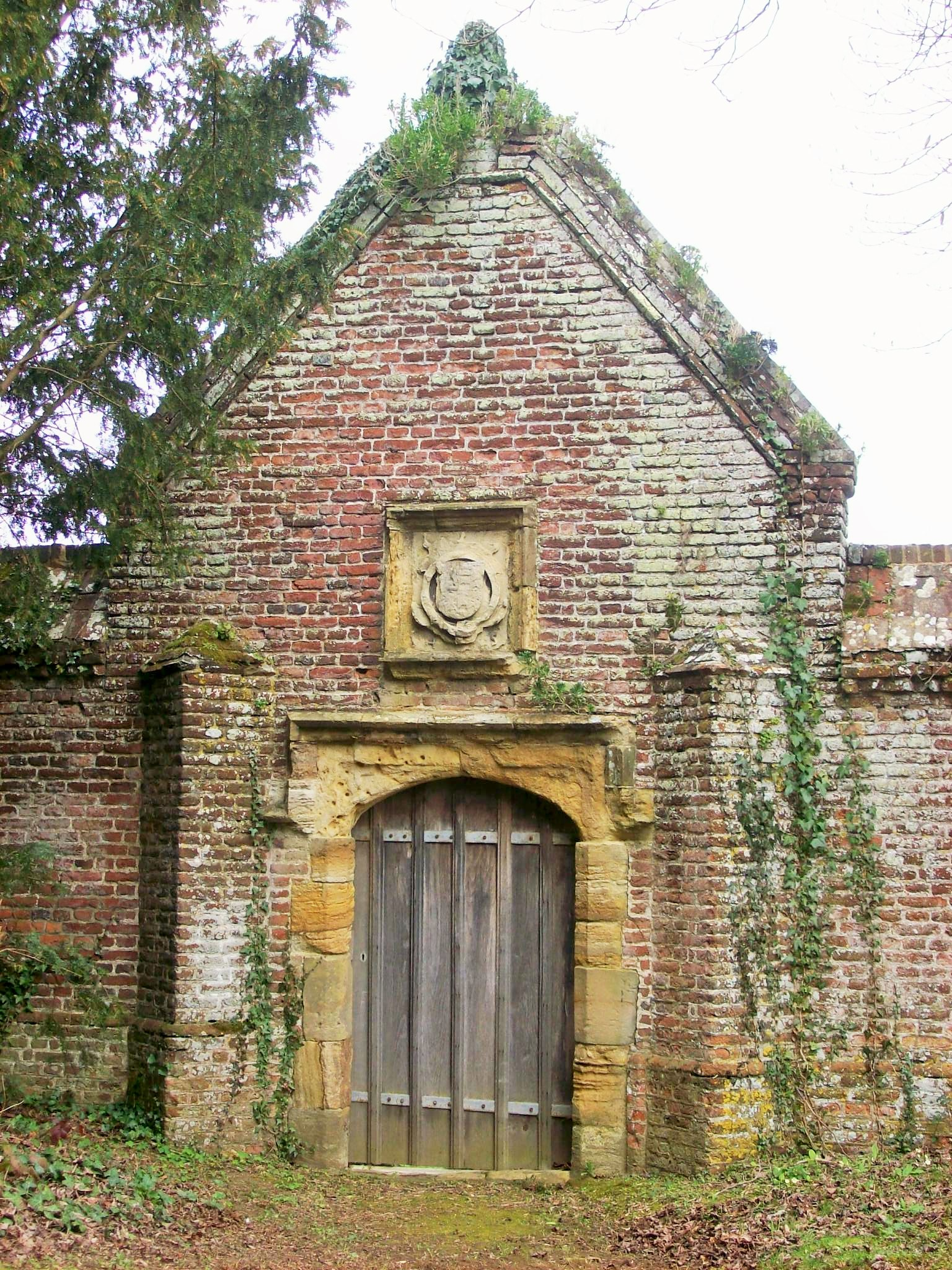 Sidney Gate, leading from Penshurst churchyard into grounds of Penshurst Place